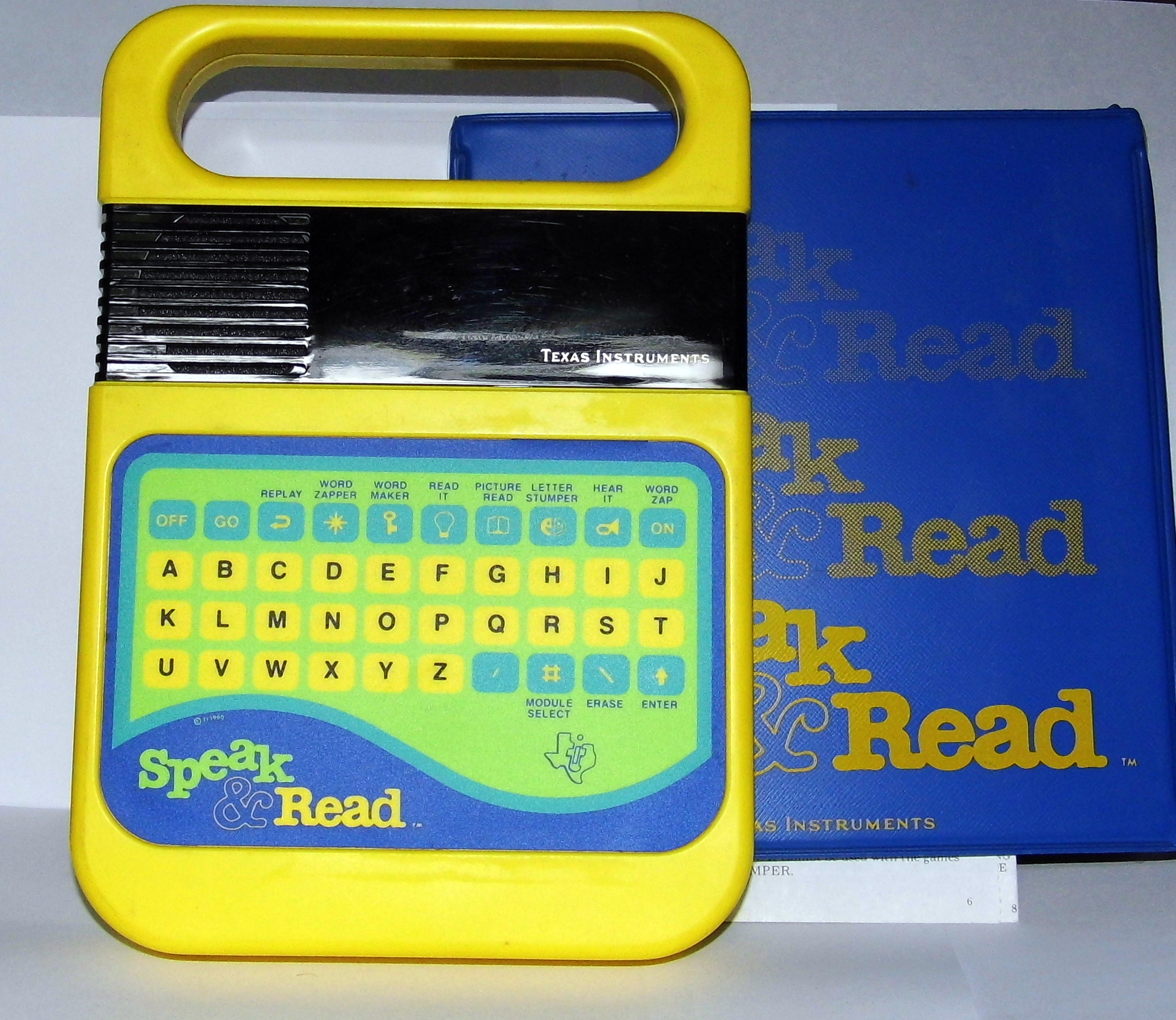 TI Speak & Read (1980)